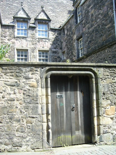 Acheson House, Bakehouse Close Built in 1633 by Sir Archibald Acheson, Secretary of State to Charles I, though parts of the house may be older. In the mid-19thC it was a notorious house of ill repute, rejoicing in the name of "The Cock And Trumpet". It was in a dilapidated condition before being skilfully restored in the 1930s and is now part of the Scottish Craft Centre.